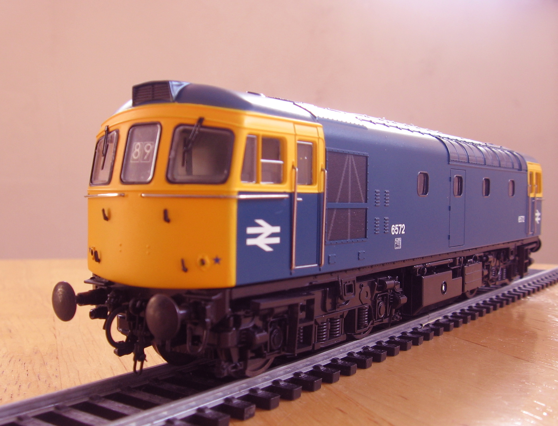 My Class 33. Yes, I like trains...get over it!